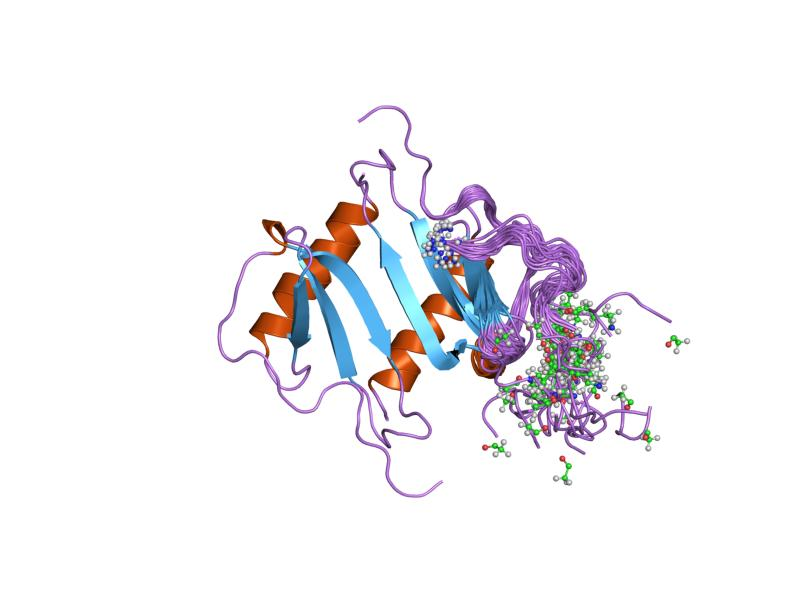 Cartoon representation of the molecular structure of protein registered with 1ilp code.